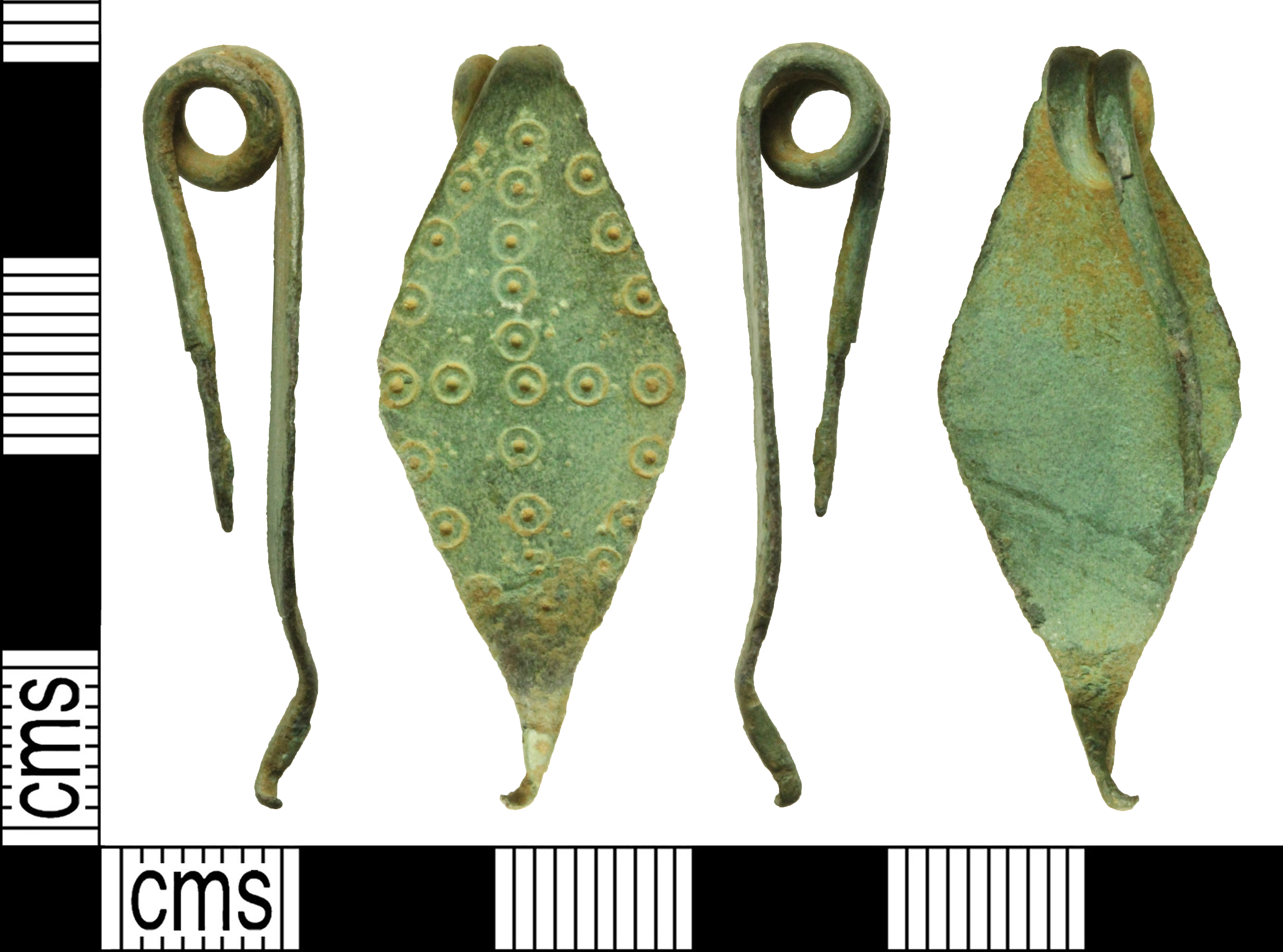 An incomplete copper-alloy middle Anglo-Saxon lozengiform brooch made from a single strip of copper-alloy, which is expanded to form a lozenge-shaped plate in the centre but narrows to wire on either side of the plate. At the base of the plate the wire is simply curled round to form a hook which acts as a catchplate for the pin. At the top of the plate the wire is looped round on itself in a single loop to the right of the plate, forming a primitive spring. The wire is then bent back down along the length of the brooch to form the pin which is incomplete. The lozenge plate is decorated with a ring and dot motif consisting of a circumfrenetial boder and a central vertical and horizontal line forming a +. Naomi Payne is currently reporting on some examples recently excavated at Sedgeford in Norfolk. She notes "Middle Anglo-Saxon safety-pin brooches appear to be a type found mainly in the east of England. Hattatt published two examples (Visual Catalogue, fig. 140, nos. 1442 and 1385) from Norfolk but misattributed them to the Bronze Age or Iron Age. Excavations at Flixborough, Humberside, have produced nine, eight of which are similar and one almost identical. There is another parallel from Brandon, Suffolk (no. 5007). A further example from Gringley on the Hill, Nottinghamshire has been recorded on the Portable Antiquities Scheme database (reference SWYOR-B804D7)." Further examples on the PAS database now include GLO-8D5E03, SF7054, KENT1321 (no illustration) and NLM7136 (no illustration). Two have characteristic 8th-century animal art (HAMP-CEBED7 and NMS-829627). See also K. Leahy, The Anglo-Saxon Kingdom of Lindsey, page 146, Fig 52. The brooch is 37.1mm in length, 14.9mm wide, 7.75mm thick and weighs 2.01 grams.